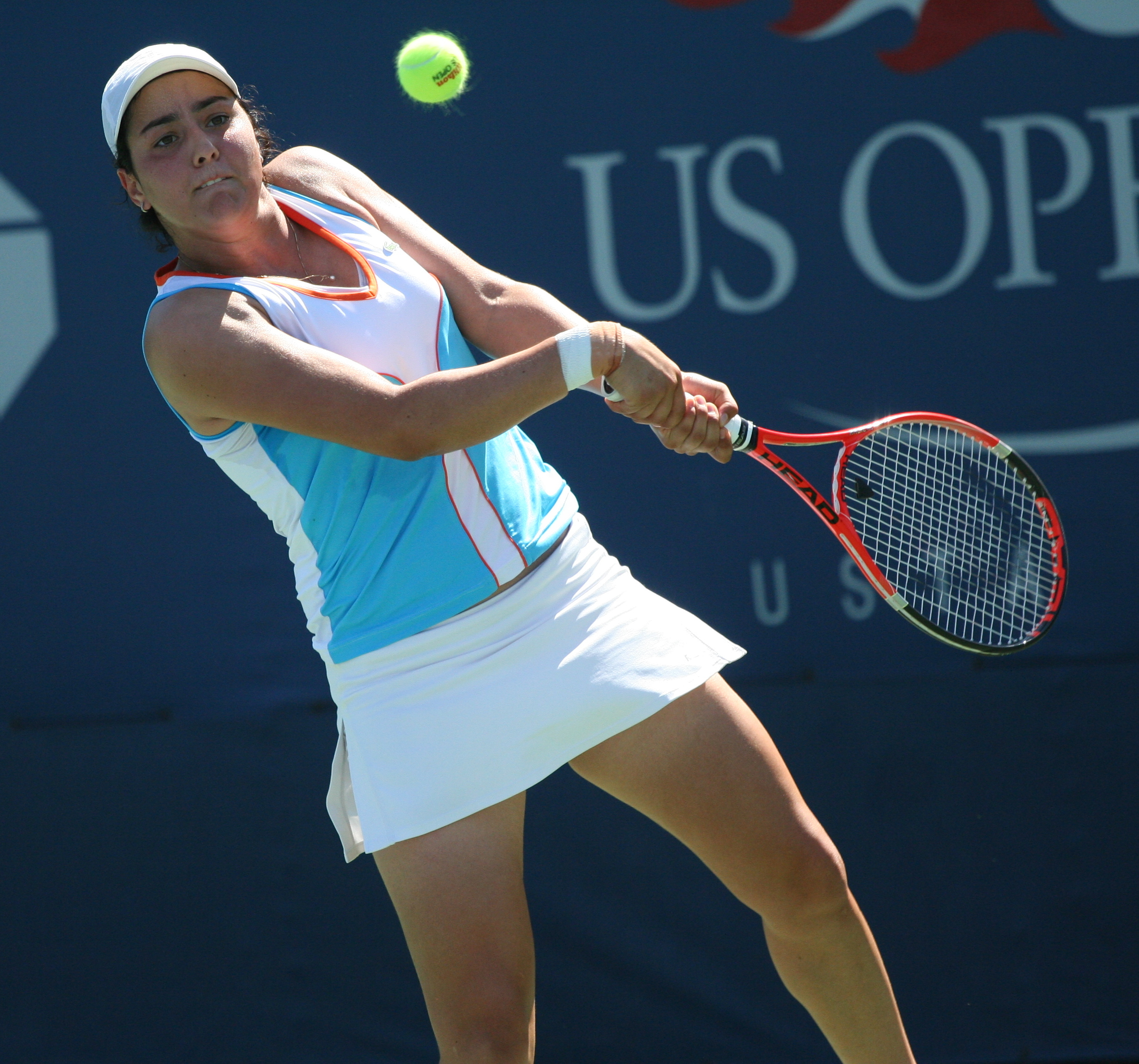 U.S. Open Juniors Sept. 6, 2010